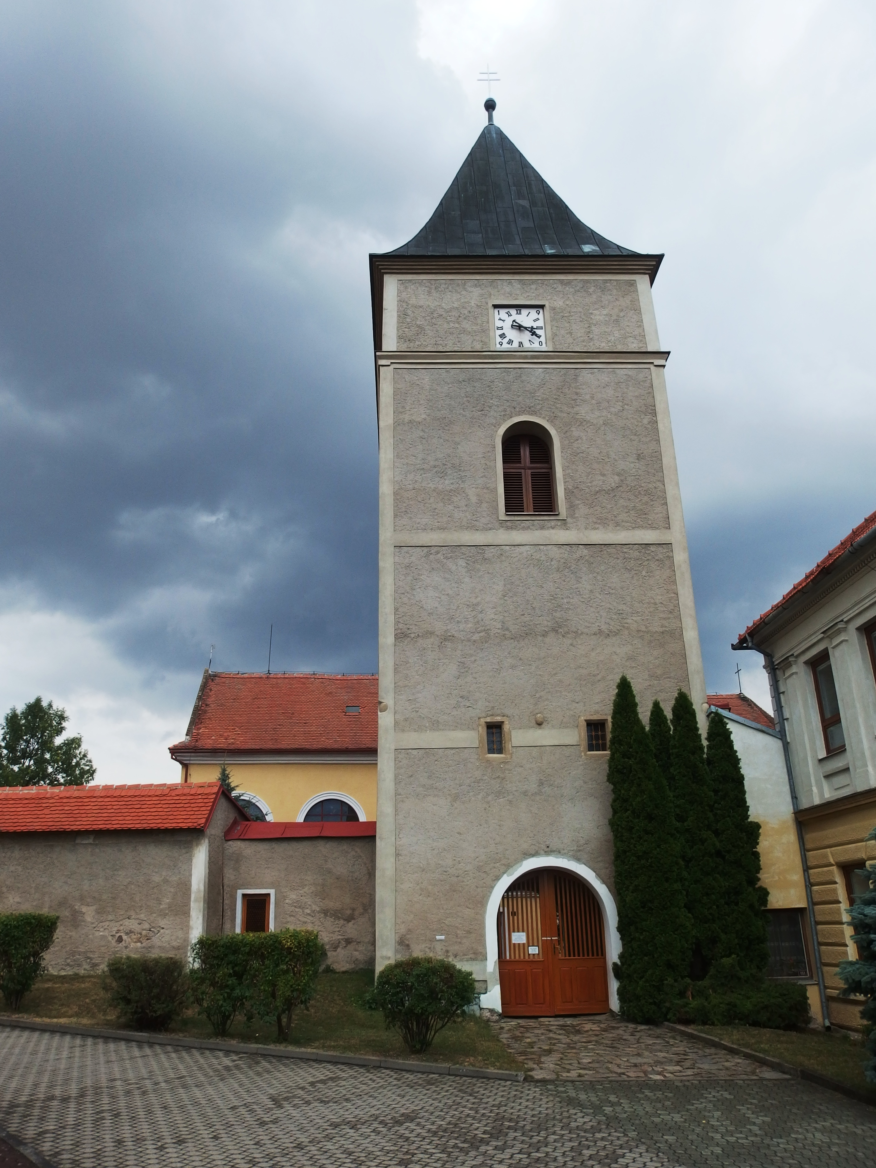 Mohelno, Třebíč District, Czech Republic.